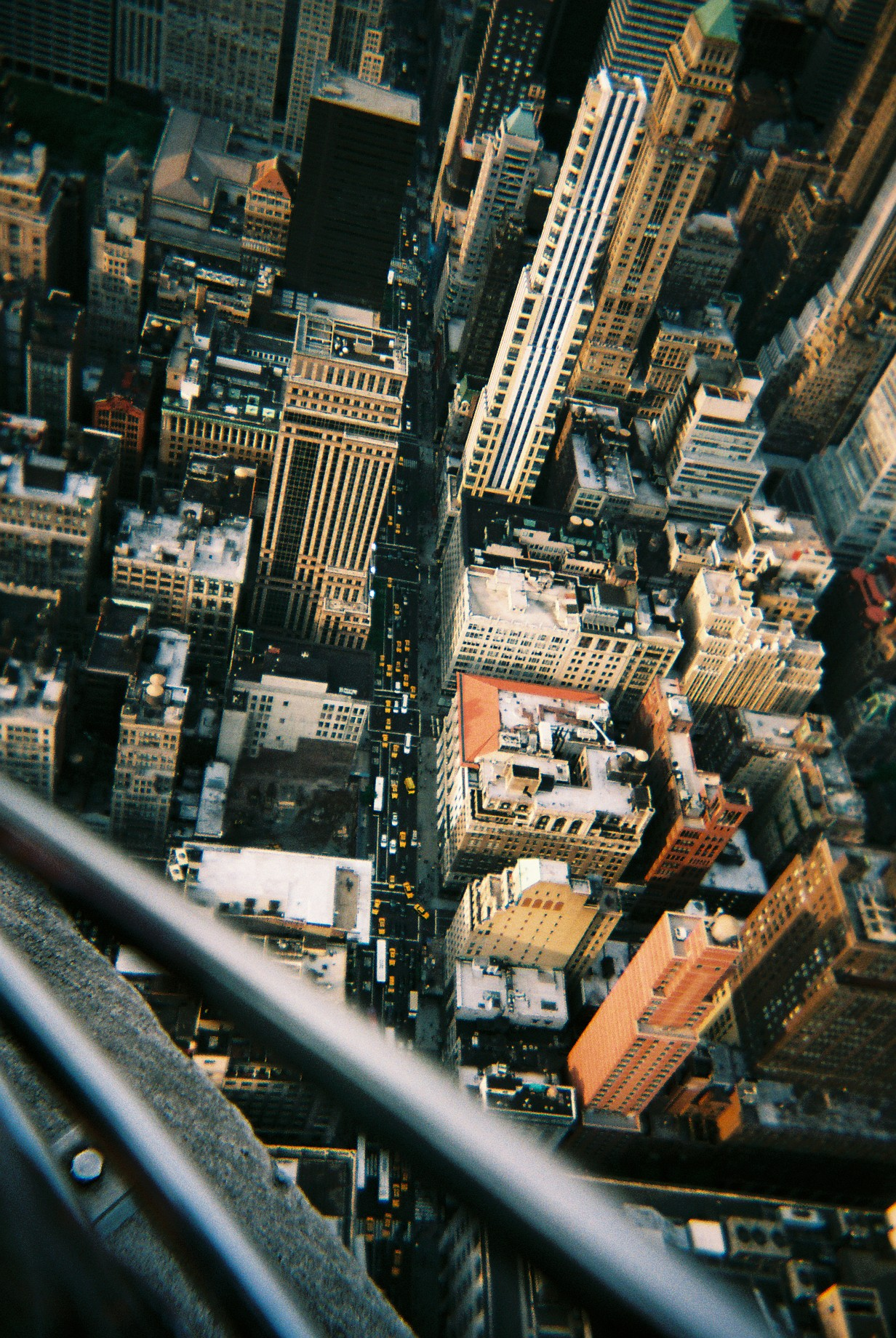 Looking down.